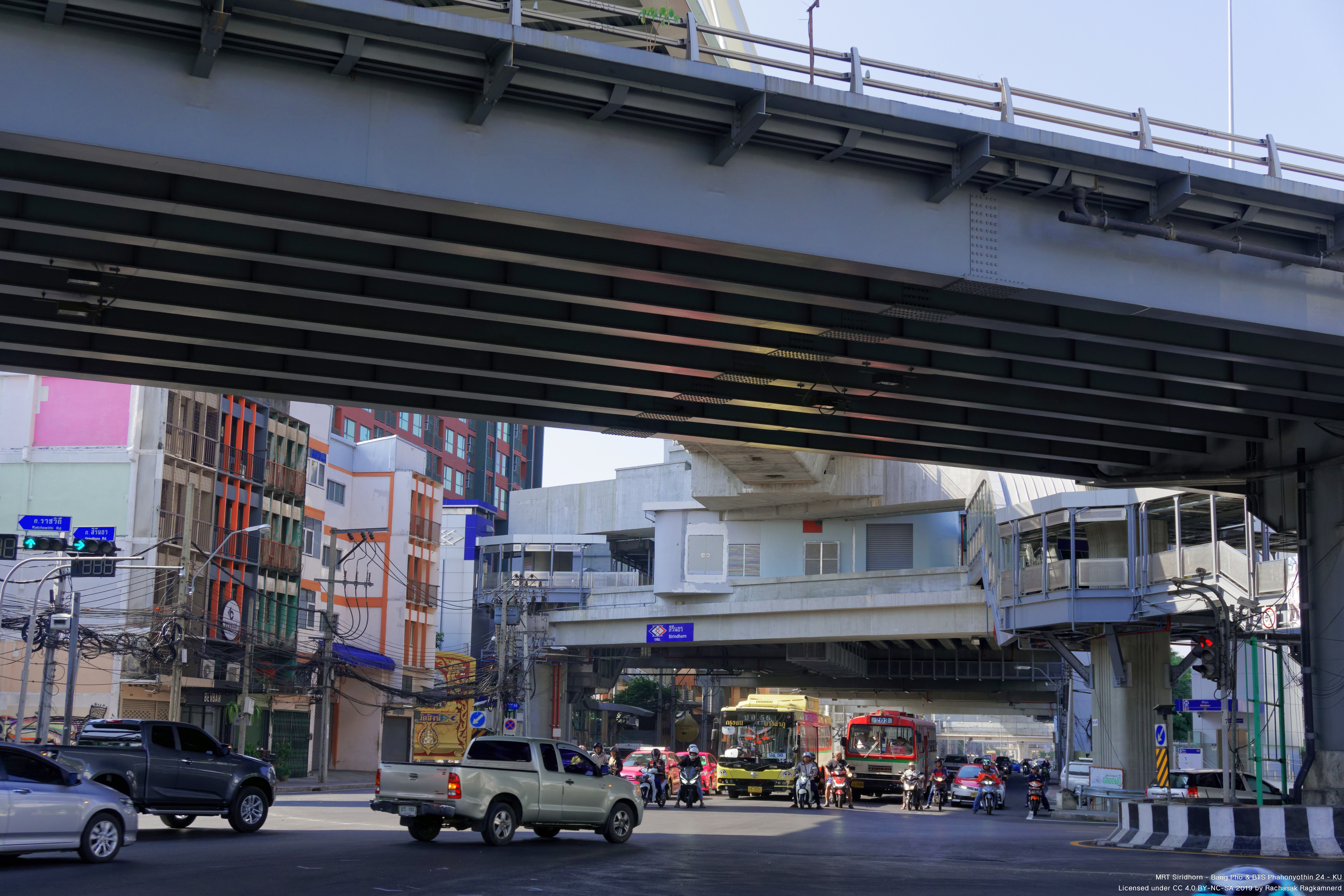 MRT Sirindhorn - View from Bang Plad intersection